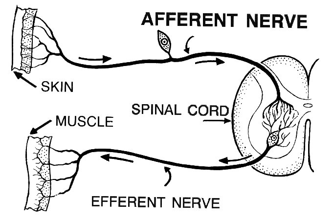 line art drawing of the afferent nerve